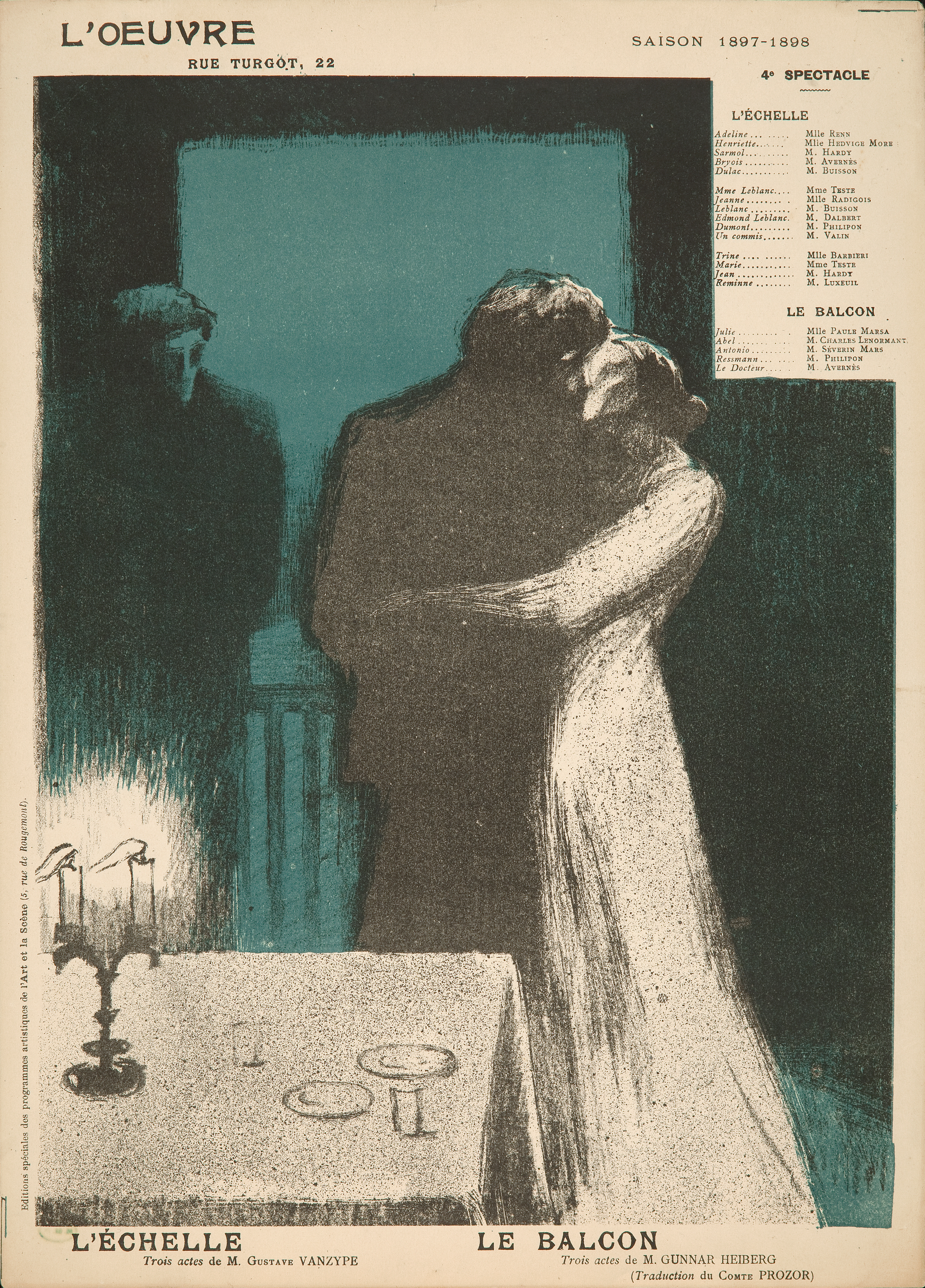 poster for Le Balcon of Gunnar Heiberg at the Théâtre de l'Oeuvre, Paris. Koehl E16